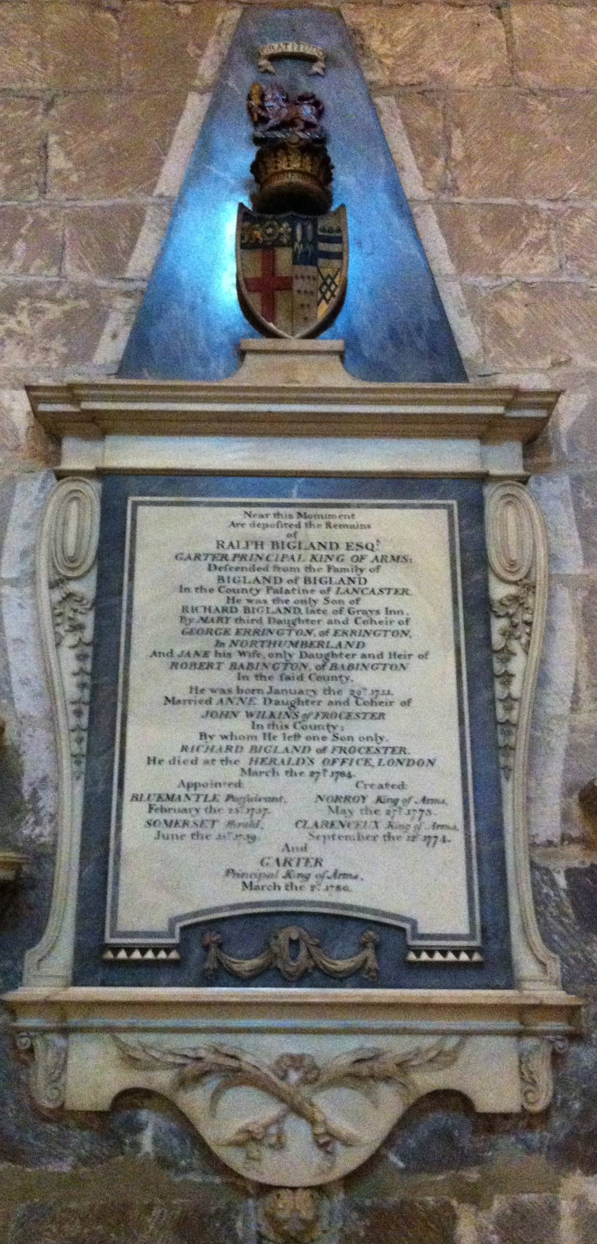 Ralph Bigland, Garter Principal King of Arms.